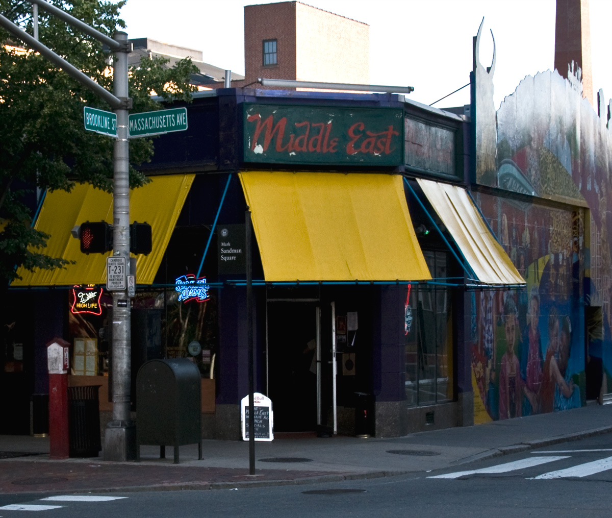 Photo take of Mark Sandman Square outside of the Middle East in Cambridge Massachusetts. This photo was taken by Zachary Armstrong on June 21, 2008 in Central Square, Cambridge, MA, US, using a Nikon D300.